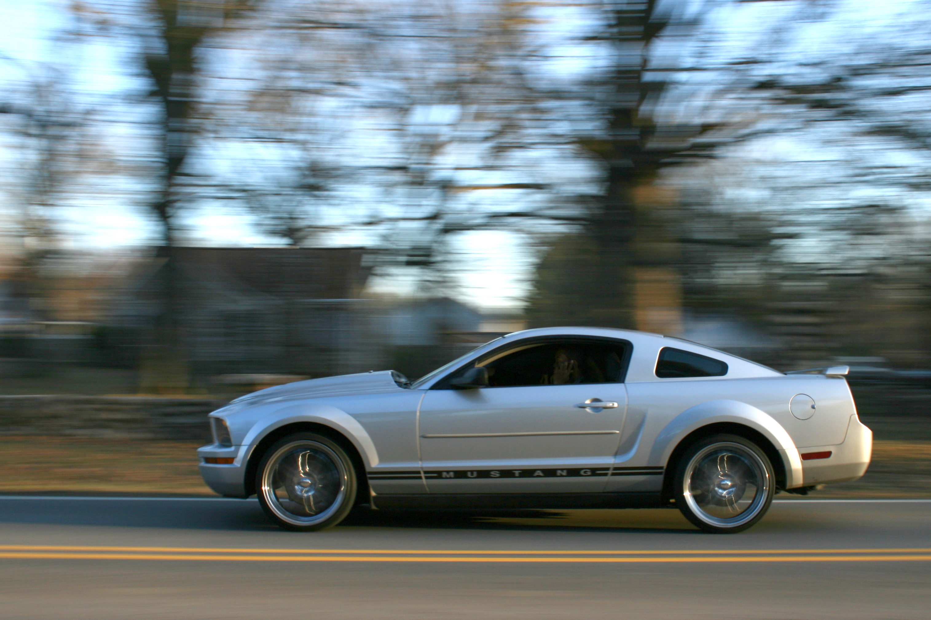 A silver Ford Mustang eastbound on East Geer Street in Durham, North Carolina.